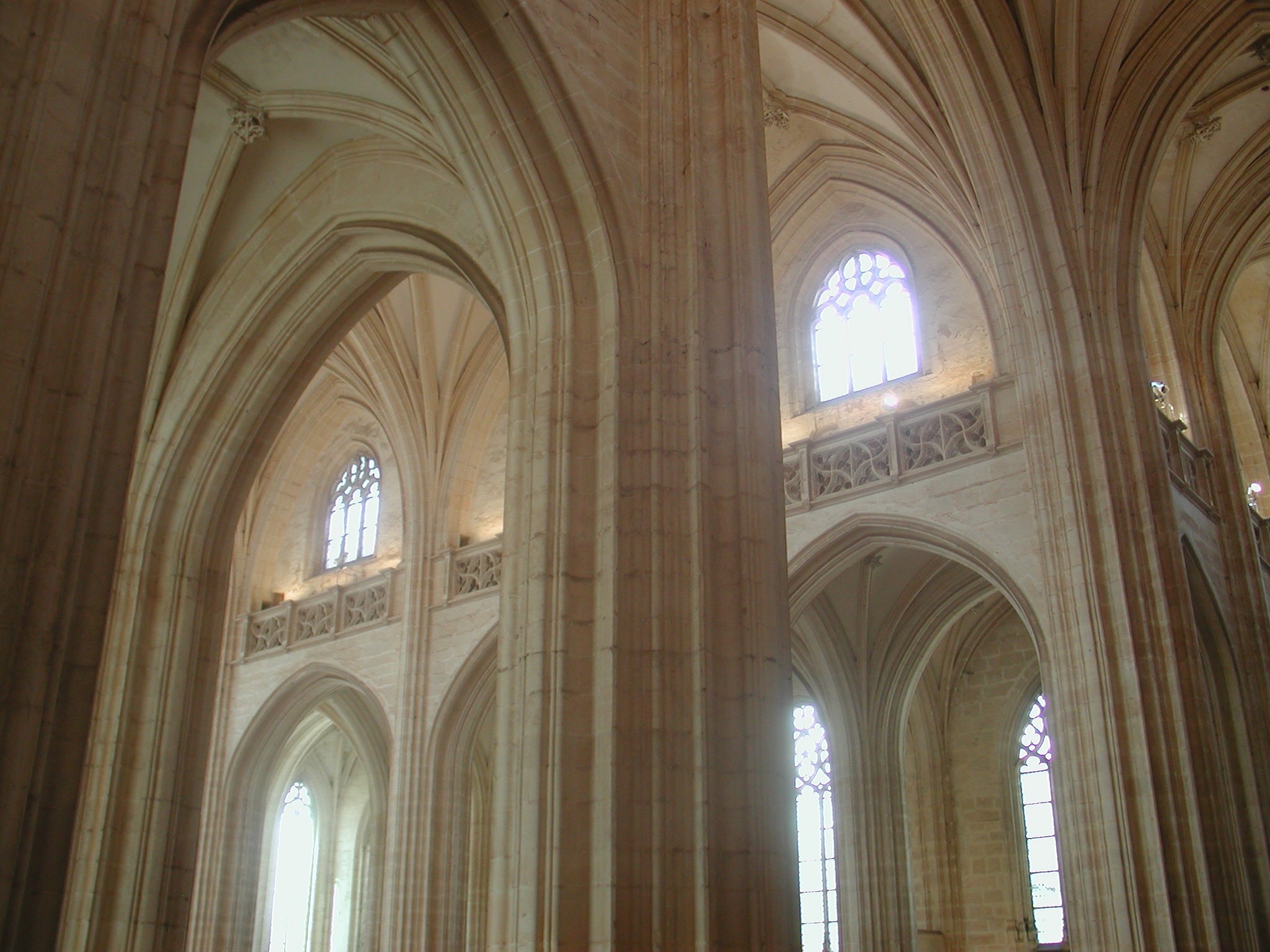 church of Brou, Bourgogne